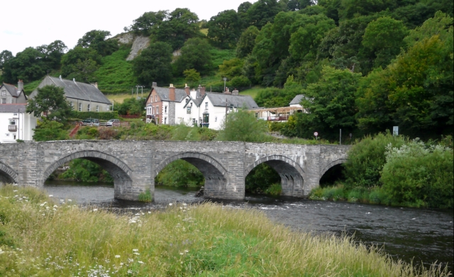 Carrog Carrog Bridge over the River Dee.